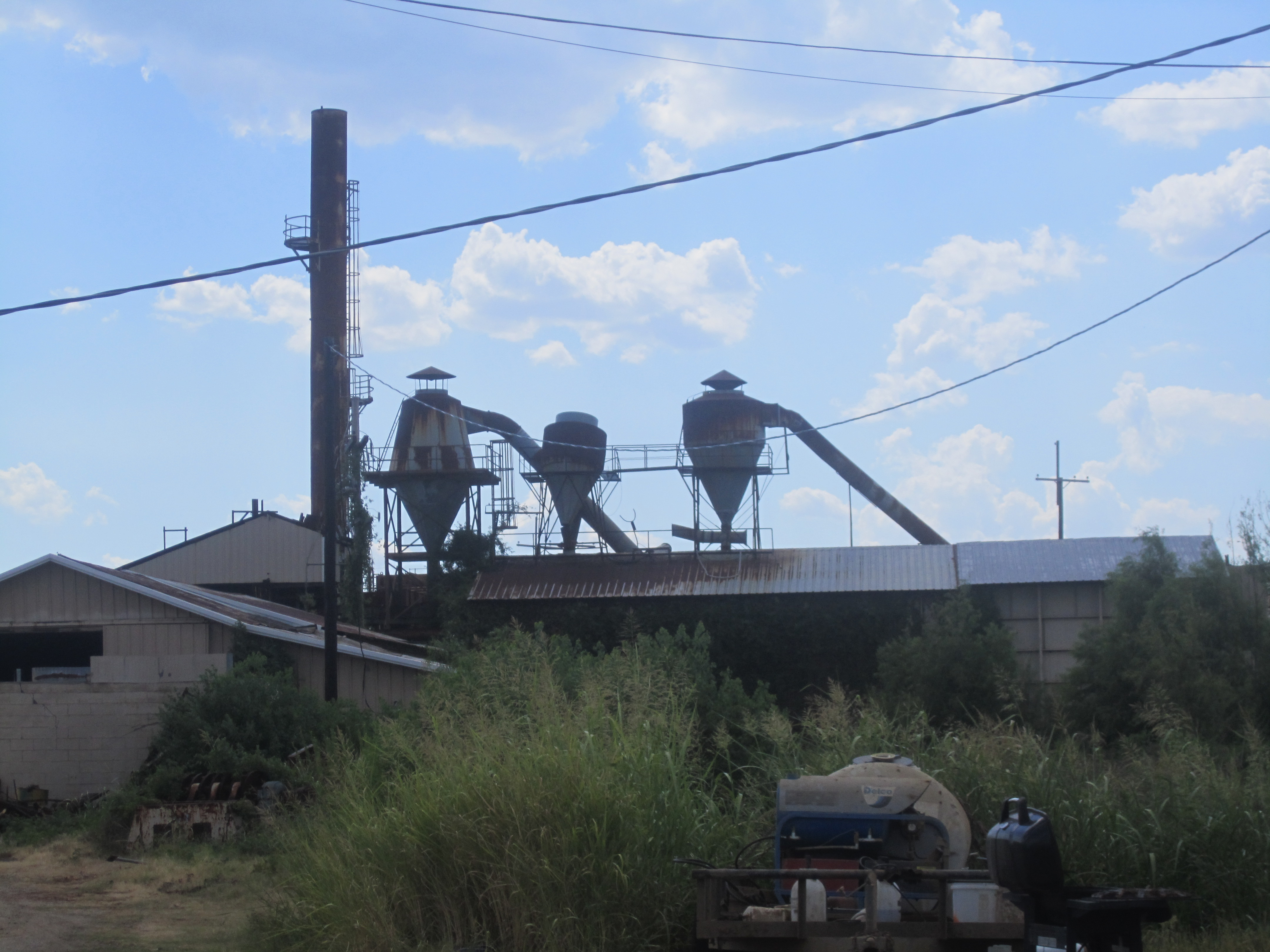 I took photo with Canon camera of closed sawmill in Roy, LA, of the Martin Lumber Company. "Roy, LA, using Canon camera.